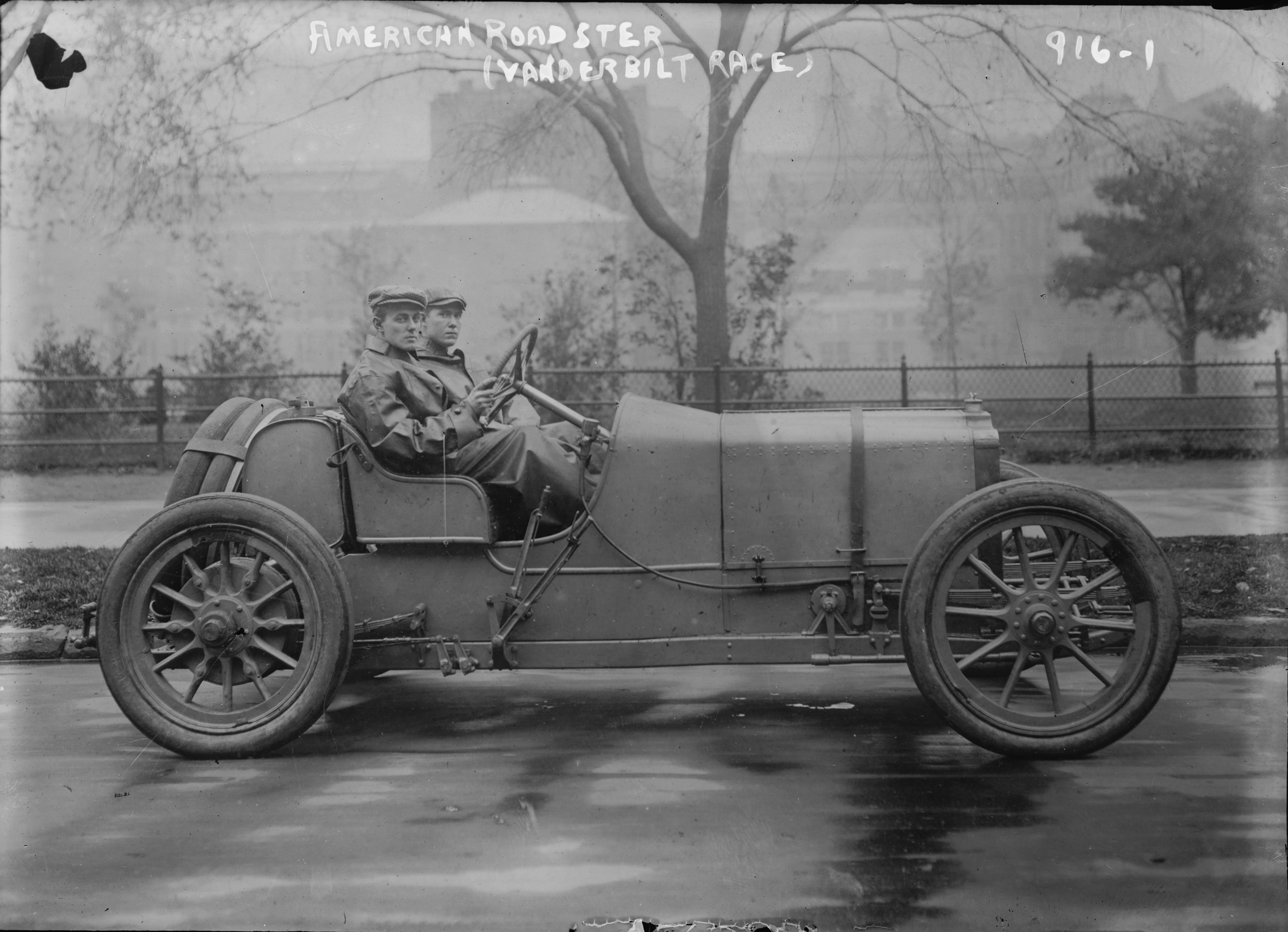 American roadster at the 1909 Vanderbilt Cup race